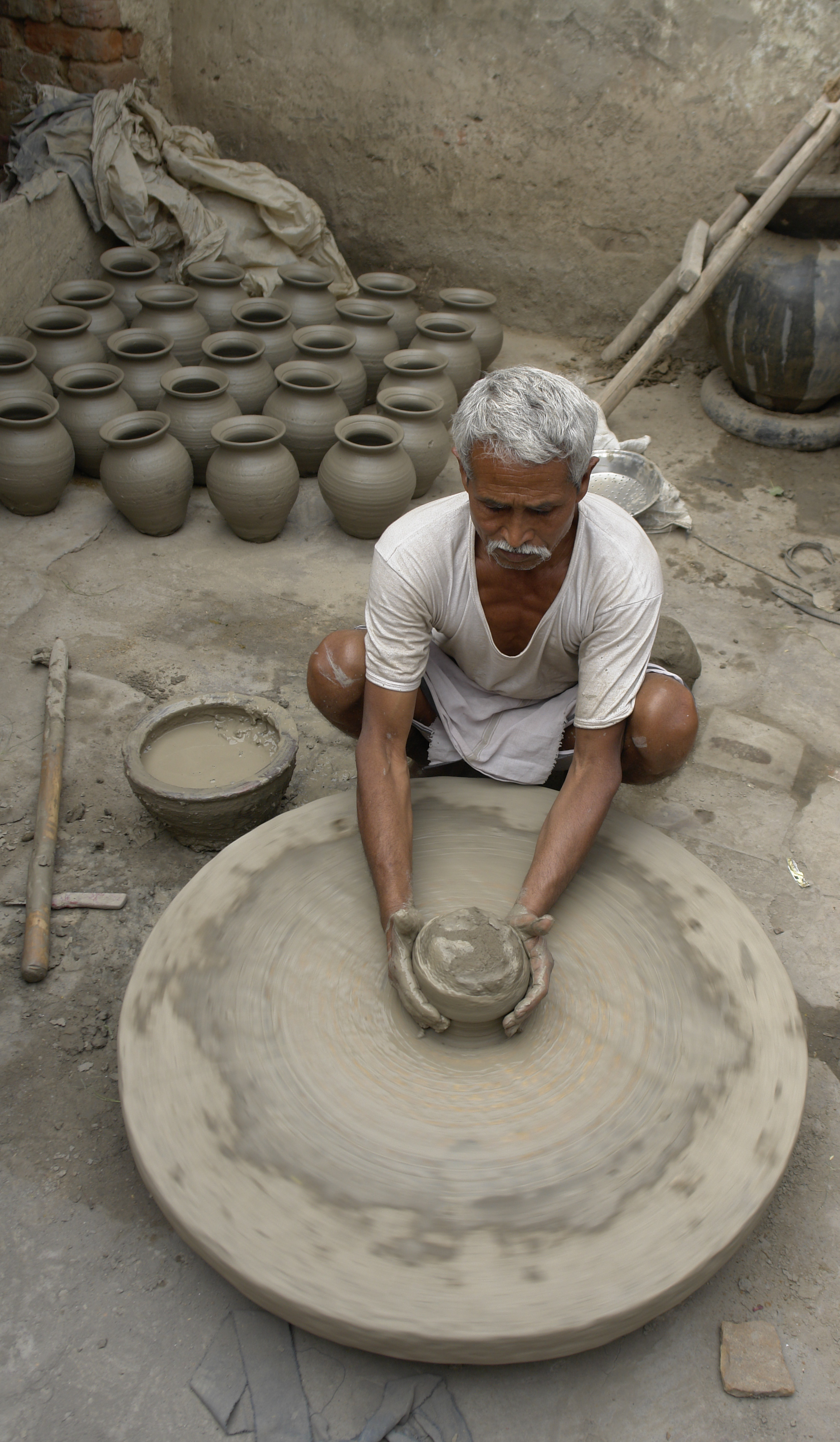 Potter, Jaura, district Morena, M.P., India.